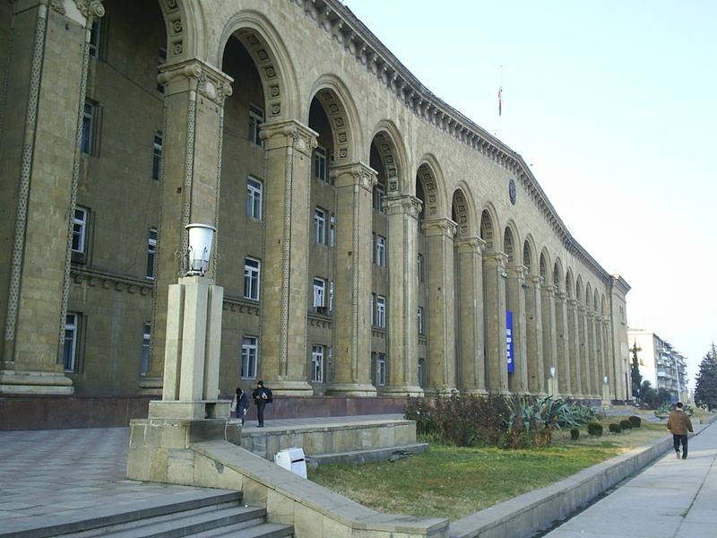 Ganja City Hall buidling. Picture taken by me in summer 2006.